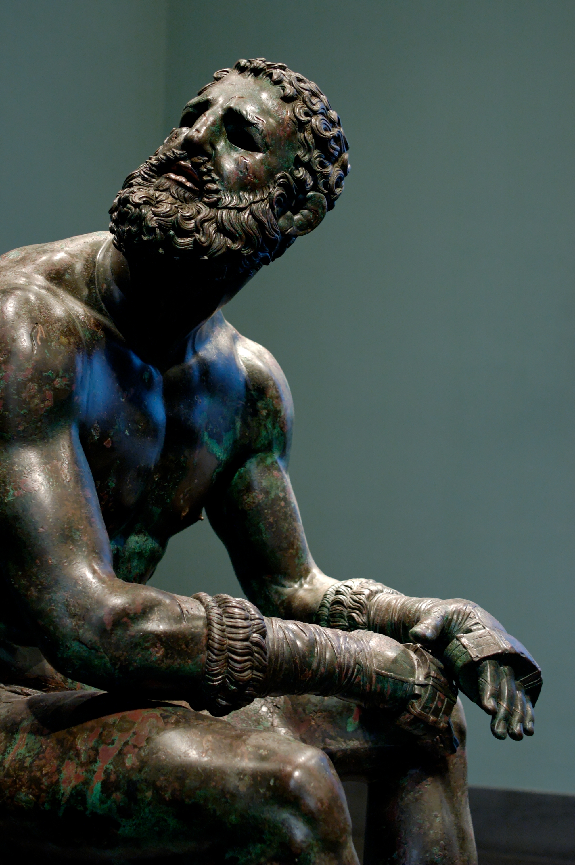 So-called “Thermae boxer”: athlete resting after a boxing match. Bronze, Greek artwork of the Hellenistic era, 3rd-2nd centuries BC (the boulder is modern and replicates the ancient one).